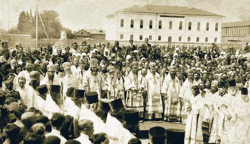 Canonization of John of Tobolsk. Divine service in Cathedral Place. Tobolsk (Rusio).